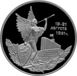 Commemorative coin - Victory of democratic forces in Russia, 19-21 August 1991.